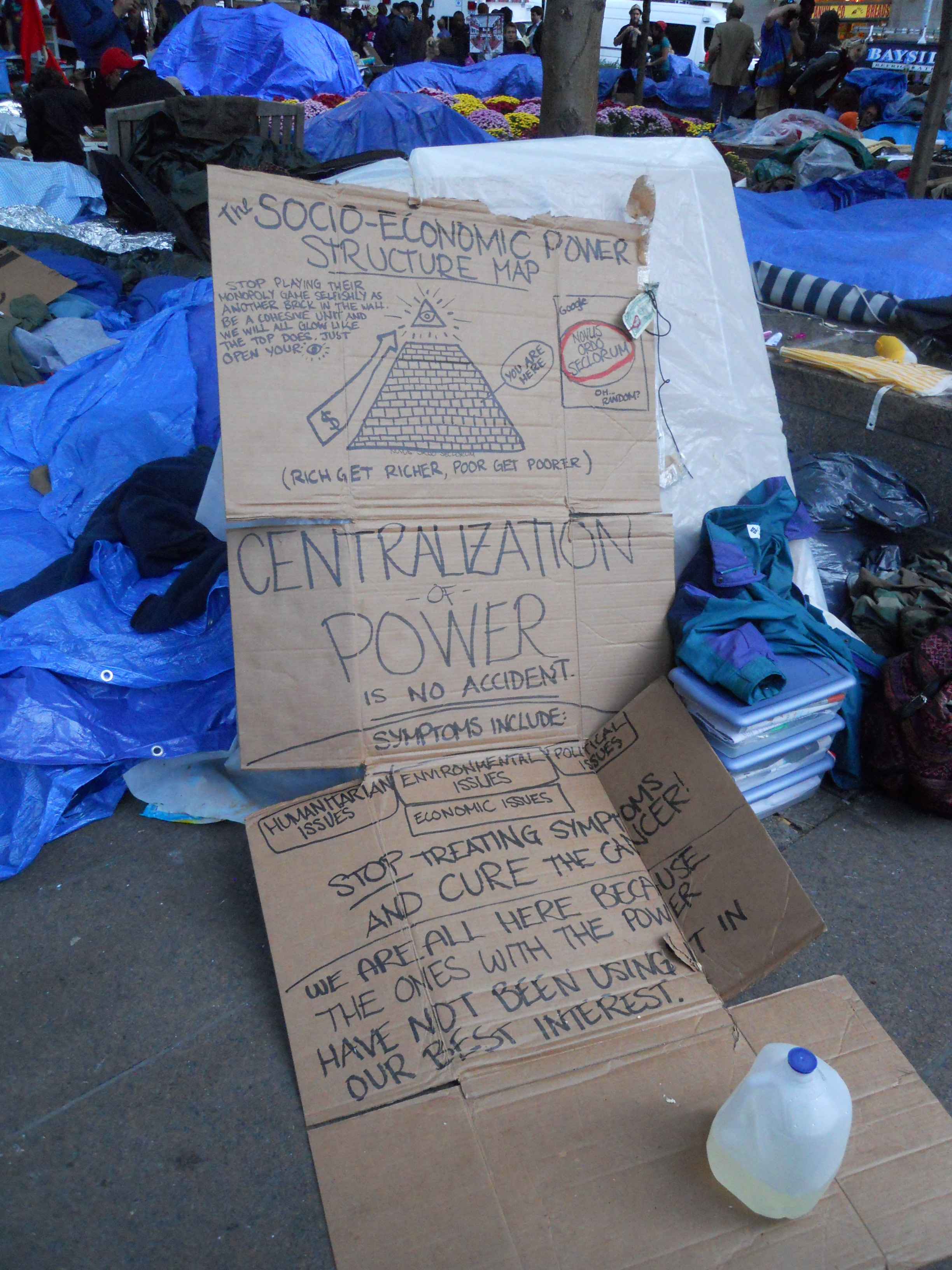 Illuminati Organizational Chart Protest Sign during the Occupy Wall St. protests.